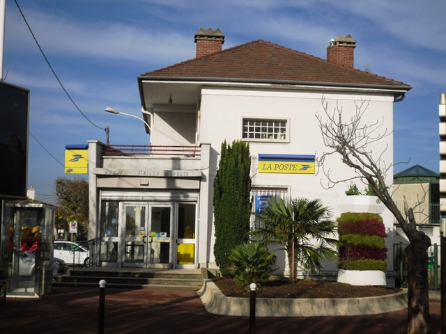 Post office in Paray-Vieille-Poste